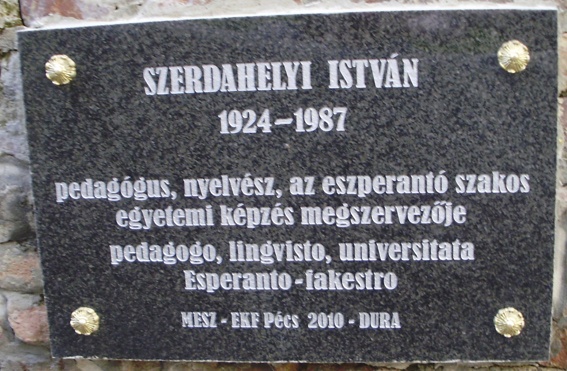 Plaque of István Szerdahelyi, Pécs, Hungary